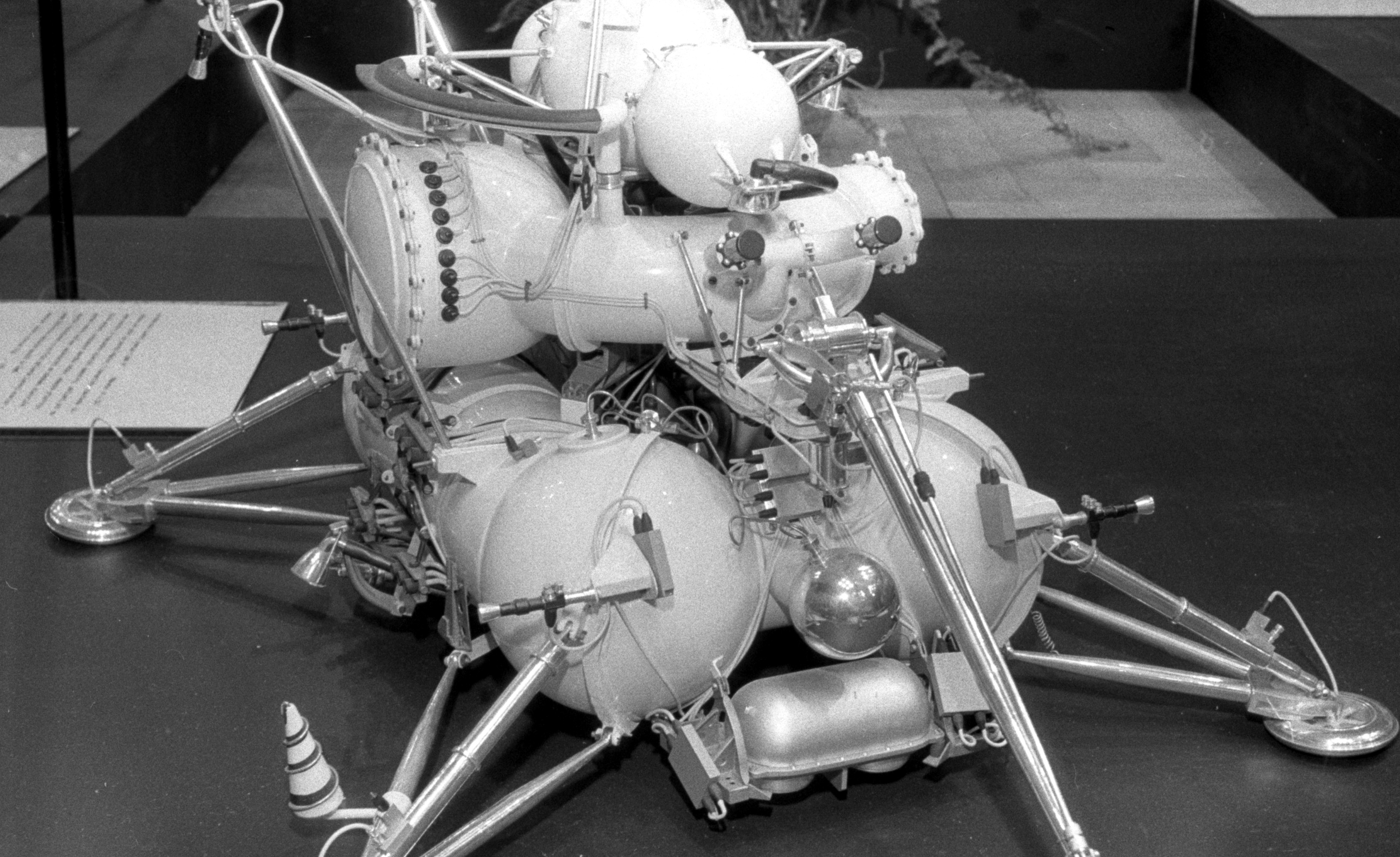 Model of soviet unmanned spacecraft Luna 24 exhibited in Prague around 1980